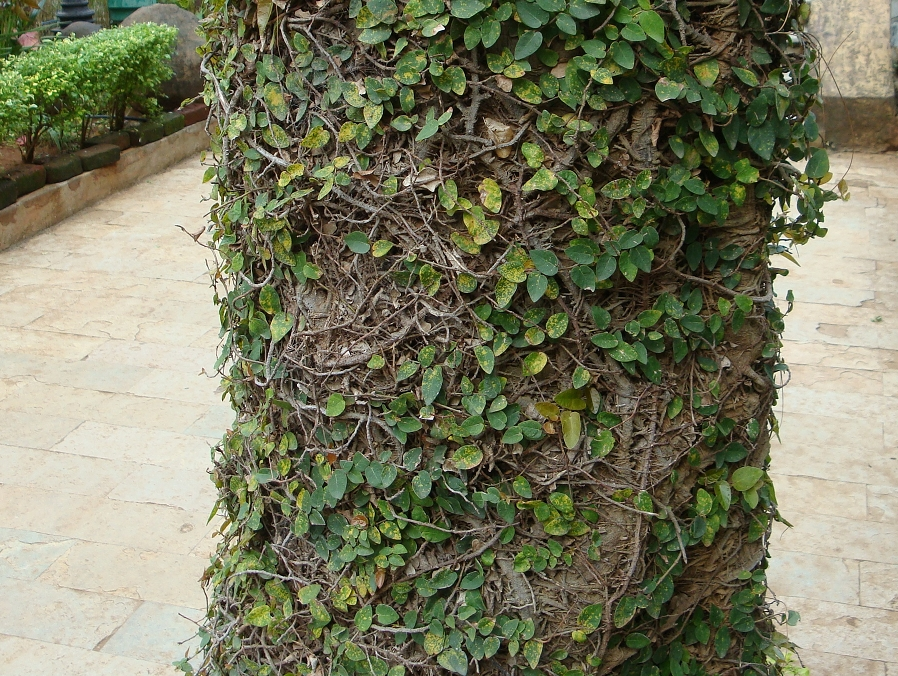 Stem of a Borassus flabellifer palm covered with F. pumila